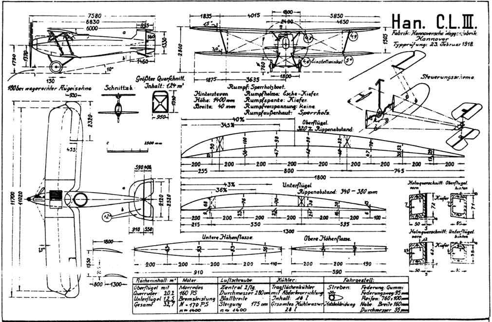 Hannover CL.III German World War 1 two seat fighter biplane